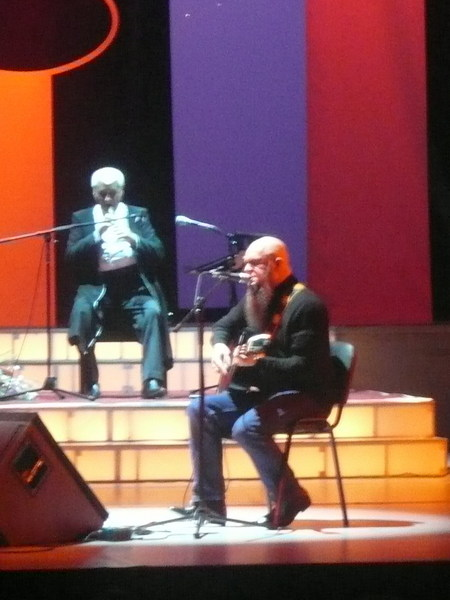 Boris Grebenshchikov performing as a guest at concert of Djivan Gasparyan in Oktyabrsky concert hall, St. Petersburg, Russia, October 20, 2008).